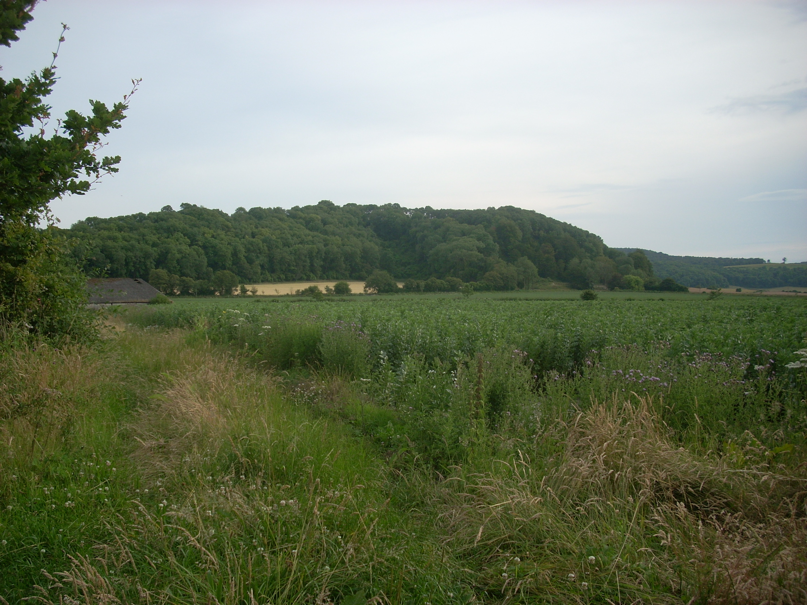 Torberry Hill hillfort near South Harting, West Sussex, England. North side.